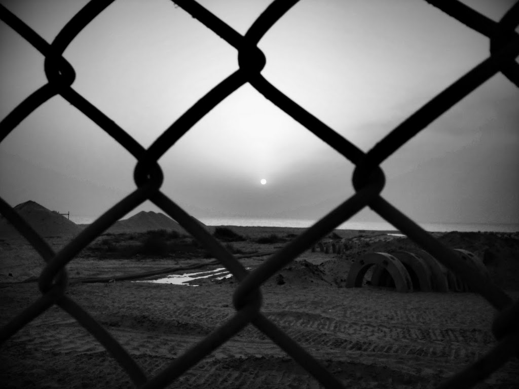 Border